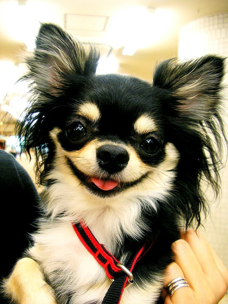 A male long-haired Chihuahua named Jack.